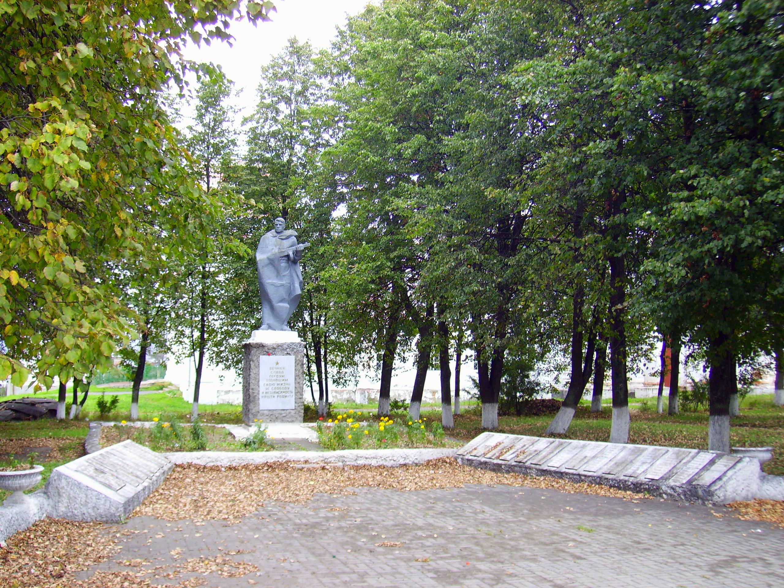 Monument to perished Soviet Soldiers of WWII